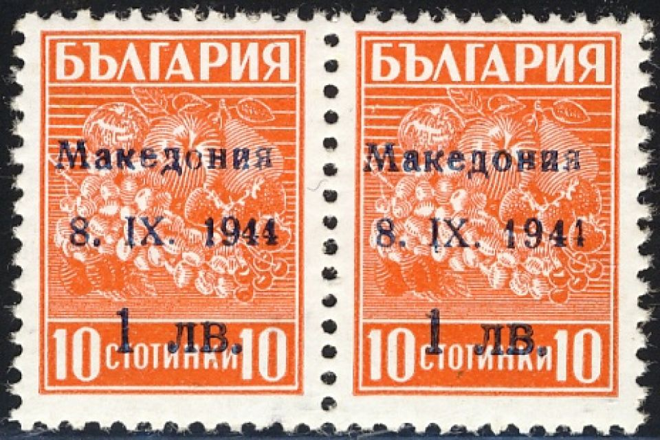 Bulgarian post stamps used in the Independent state of Macedonia in 1944